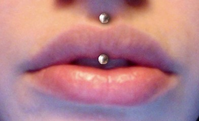 Photoshopped image of a jestrum piercing.